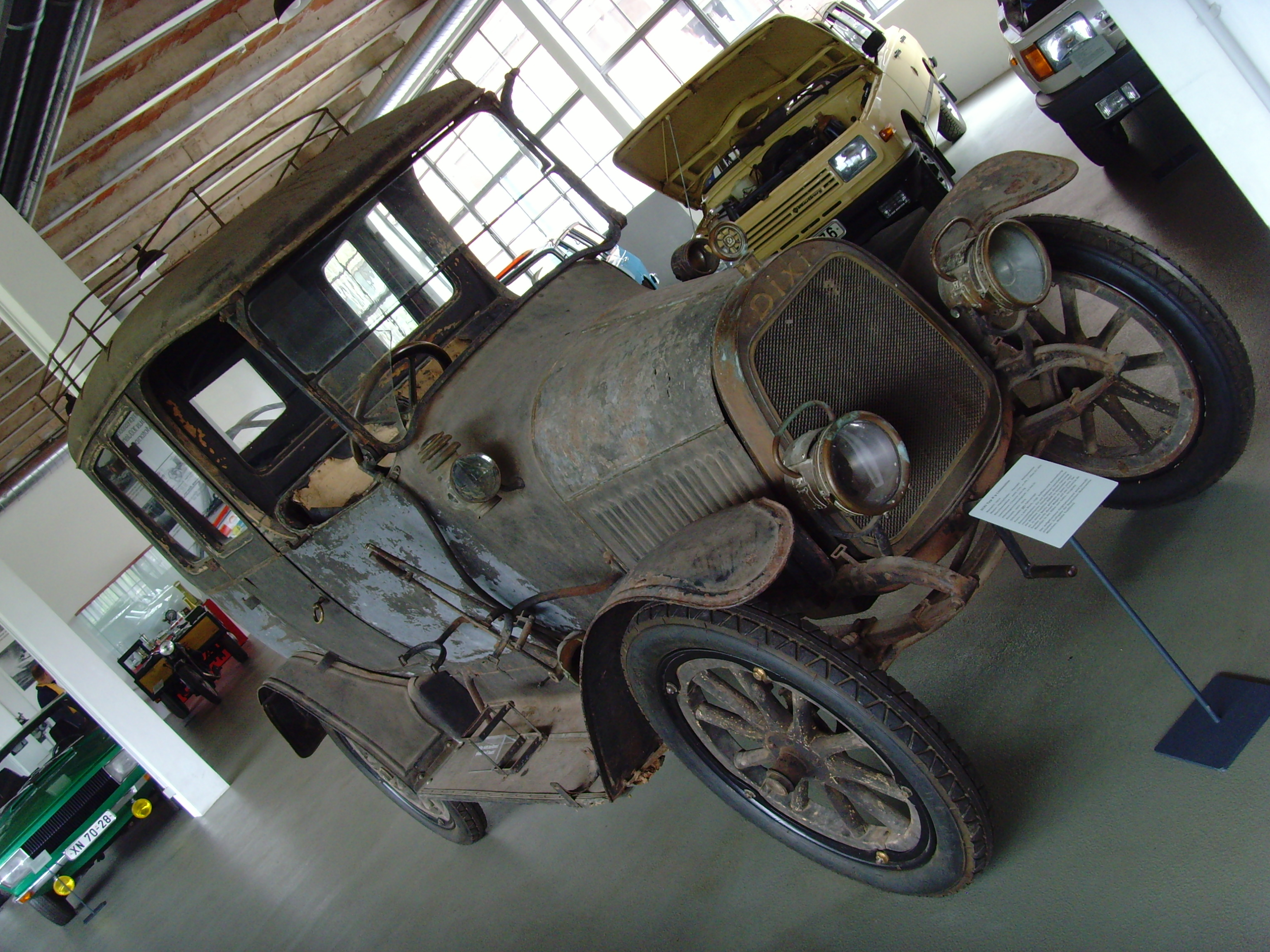 Dixi Typ R 9 Limousine 1912